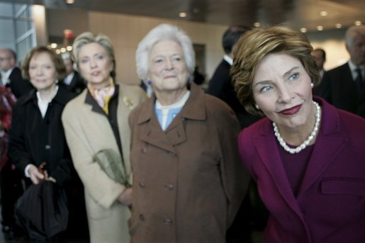 Laura Bush and former first ladies, from left, Rosalynn Carter, then-Senator Hillary Clinton, and Barbara Bush, at the dedication ceremony for the William J. Clinton Presidential Center and Park in Little Rock, Ark., Nov. 18, 2004.